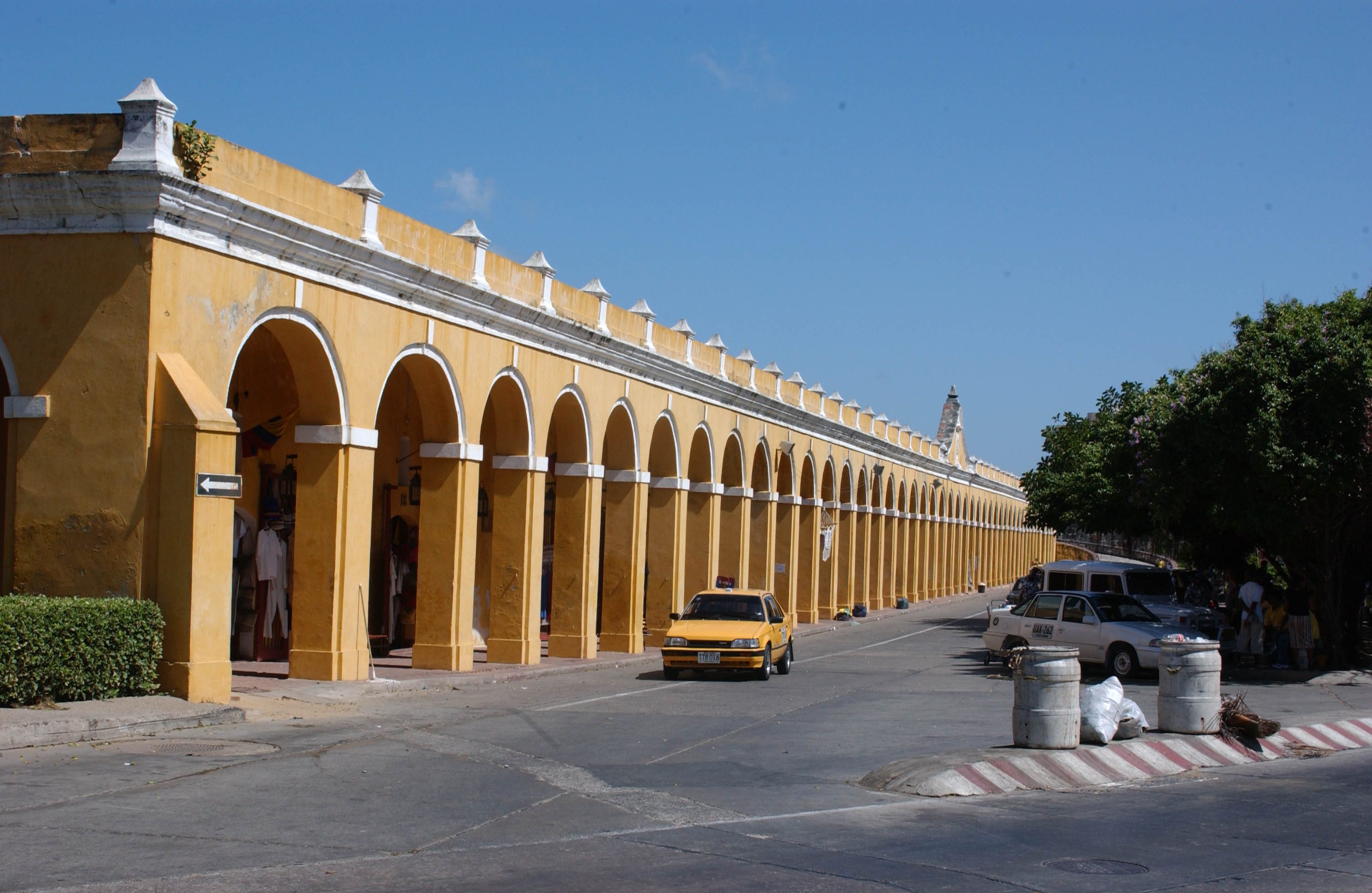 THESE WERE THE DUNGEONS ATTACHED TO THE WALLS BUT NOW TURNED INTO SOUVENIR AND CRAFT SHOPS.